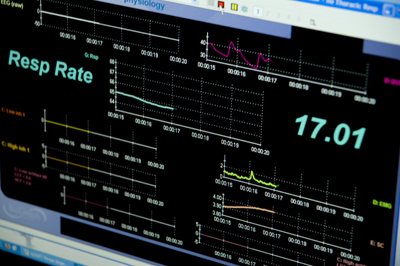 biofeedback graphics Respiration rate biofeedback display.